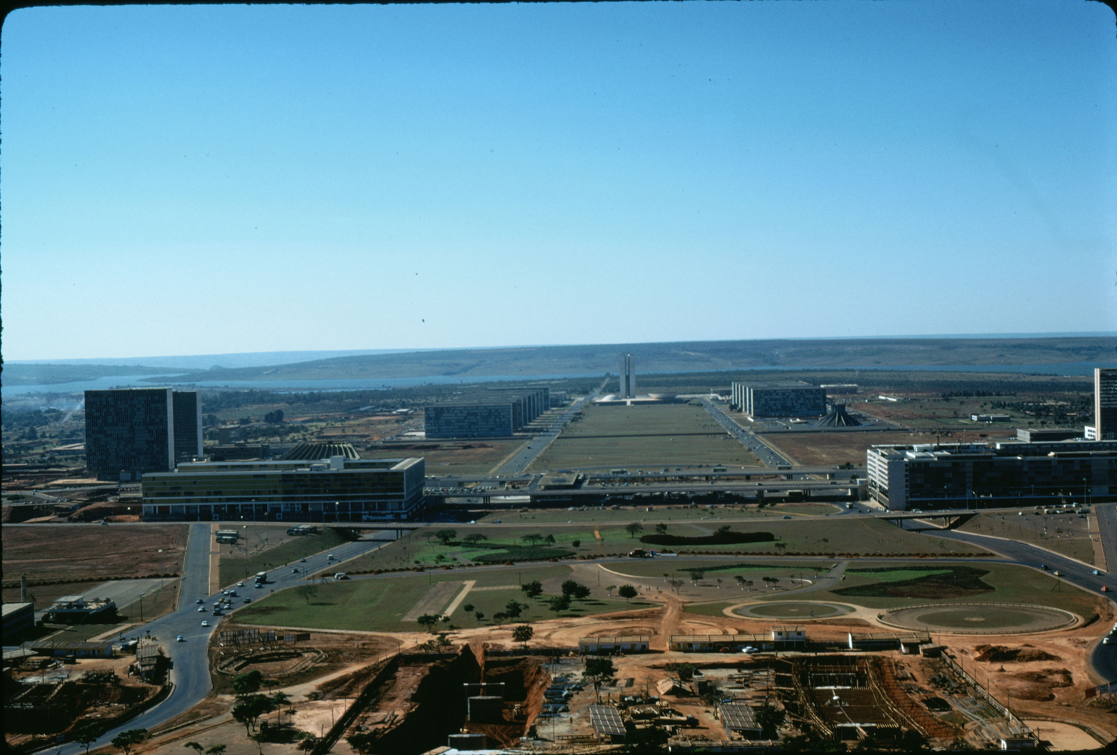 The development of a new and modern city; Brasilia, Brazil. Seen from the TV tower.